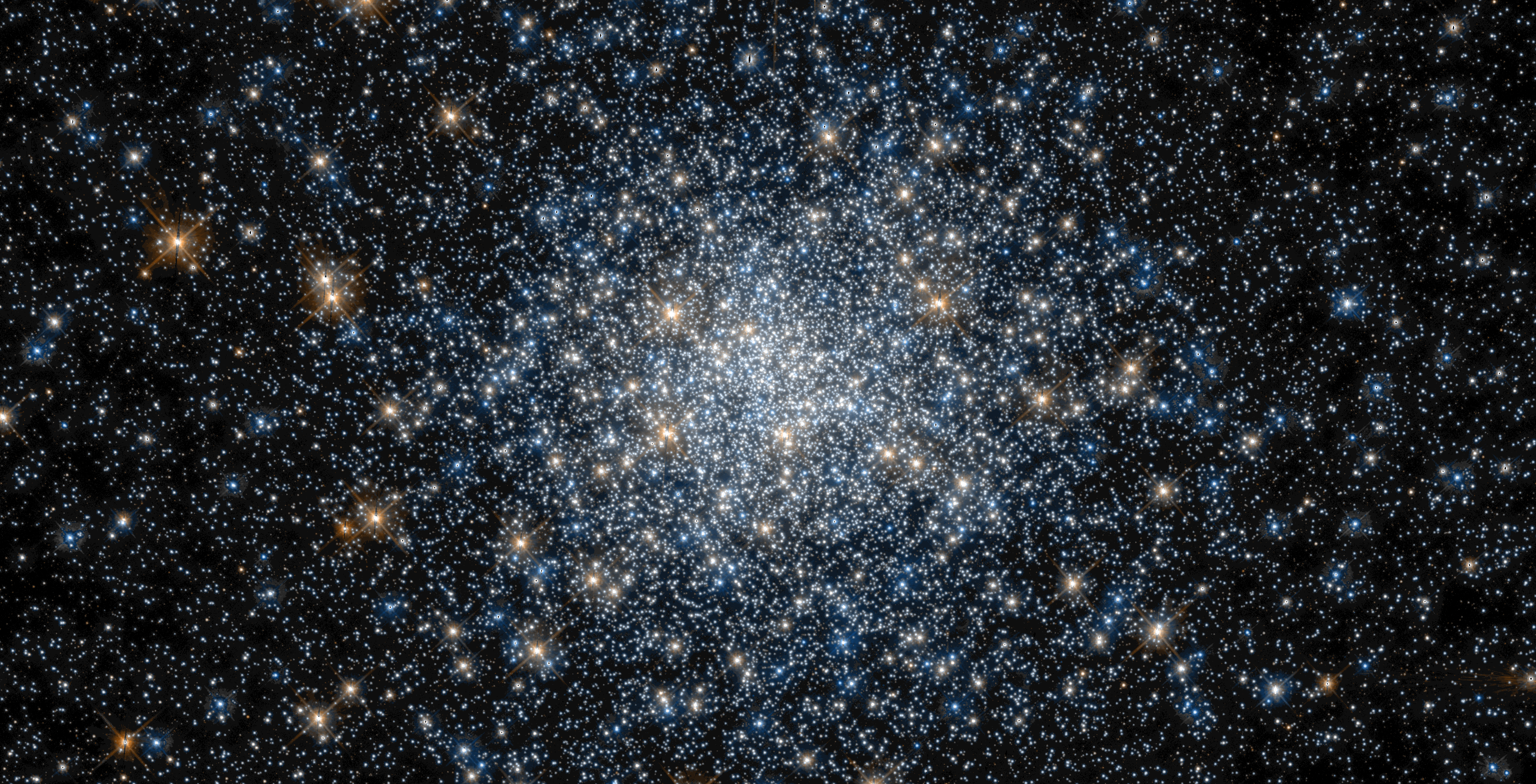 Color rendering is done by by Aladin-software (2000A&AS..143...33B.)